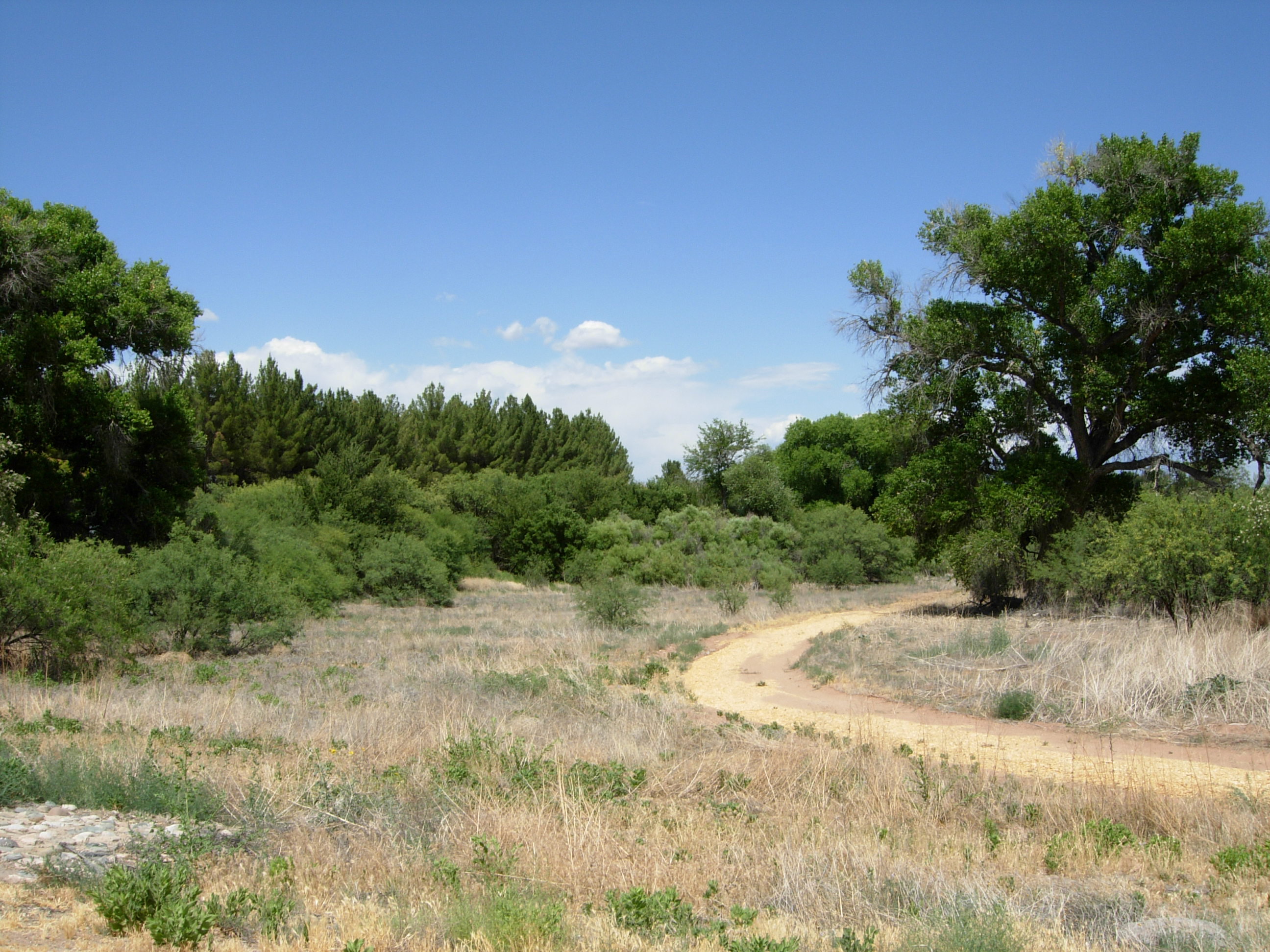 Dead Horse Ranch State Park, Cottonwood, Arizona, USA